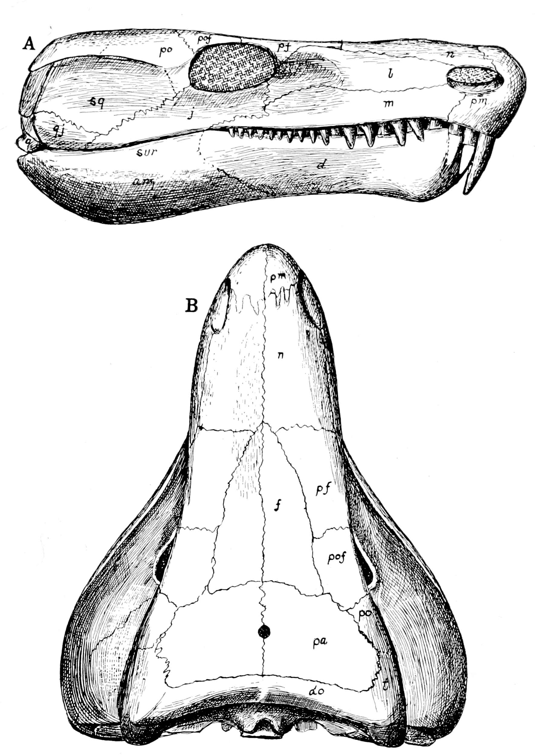 Illustration of Limnoscelis paludis skull (from the side and above) from The Osteology of the Reptiles (1925)